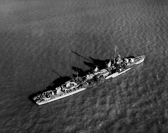 The U.S. Navy destroyer USS Bullard (DD-660) off San Francisco, California (USA), on 16 November 1944. She is painted in Camouflage Measure 32, Design 10D.